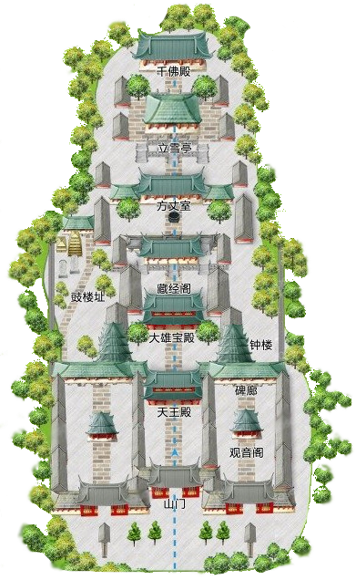 Shaolin temple layout plan